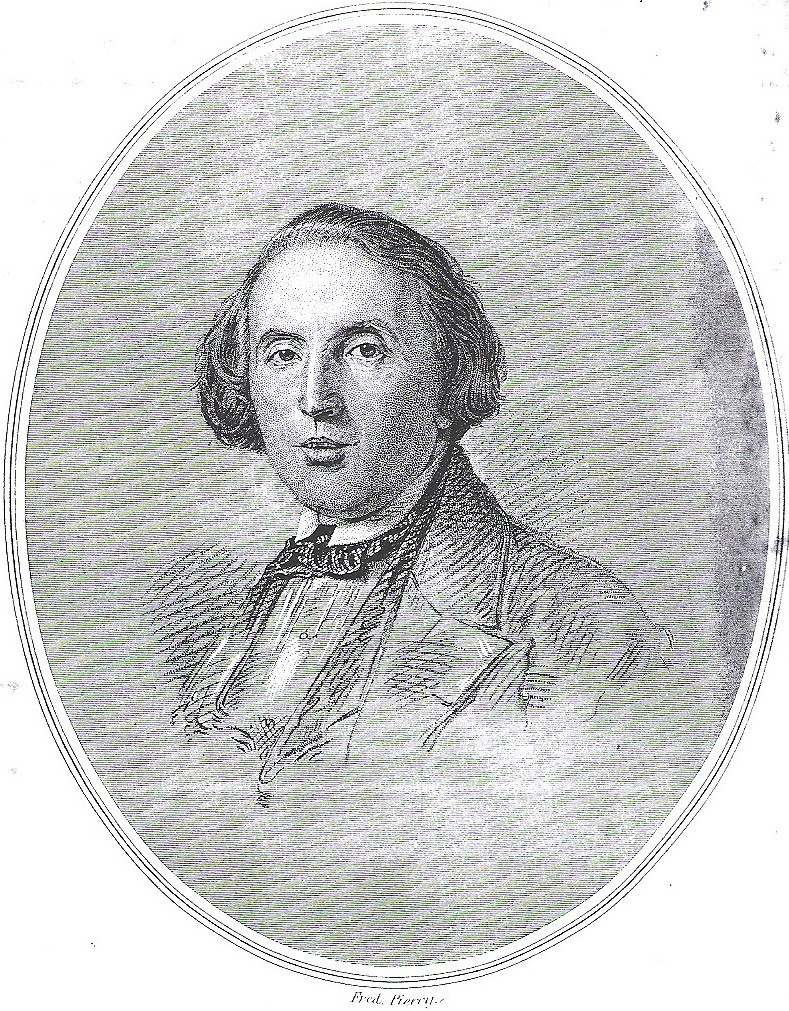 A wood cut of the Scottish Latter-day Saint poet, John Lyon by Fred. Piercy (1853)